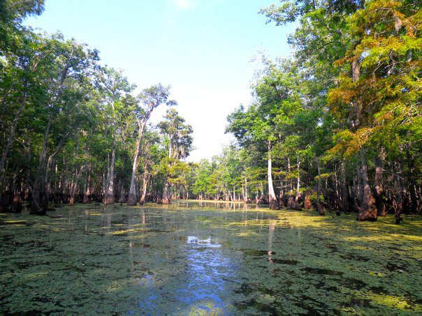 Swamp in Slidell, LA Louisiana